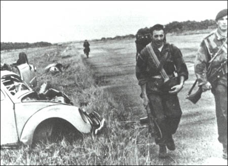 original description: "Paracommandos on the edge of the Stanleyville airfield after parachuting"[1]